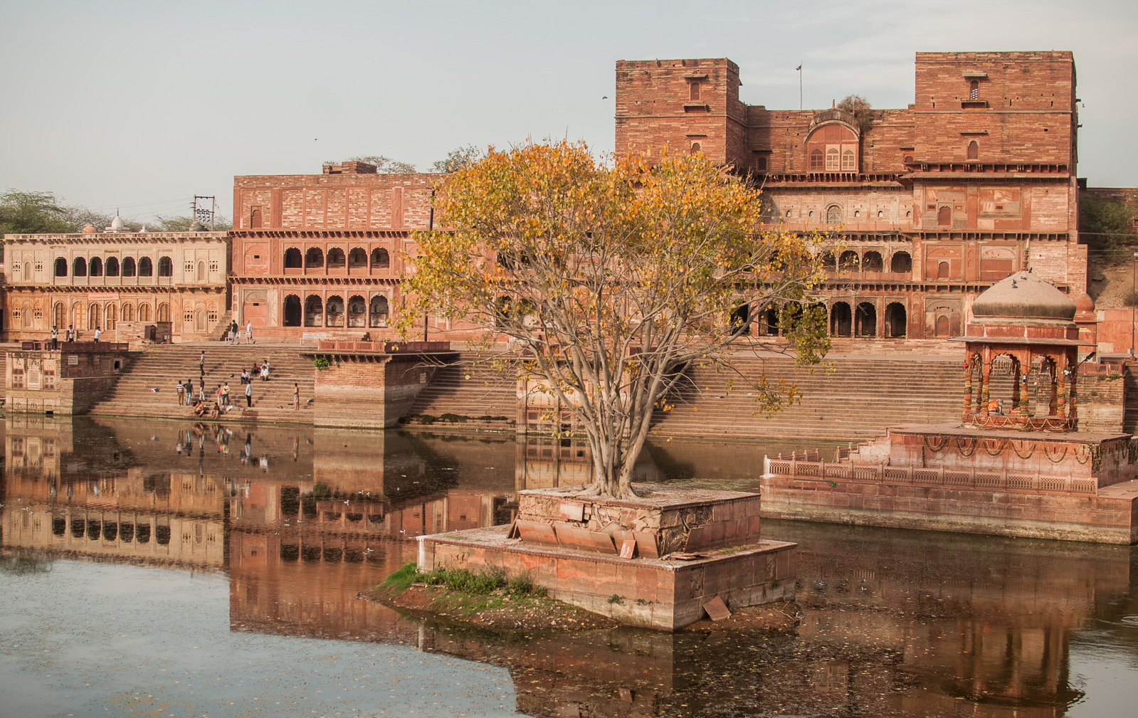 The Machkund Temple in Dholpur city, Rajasthan state, India